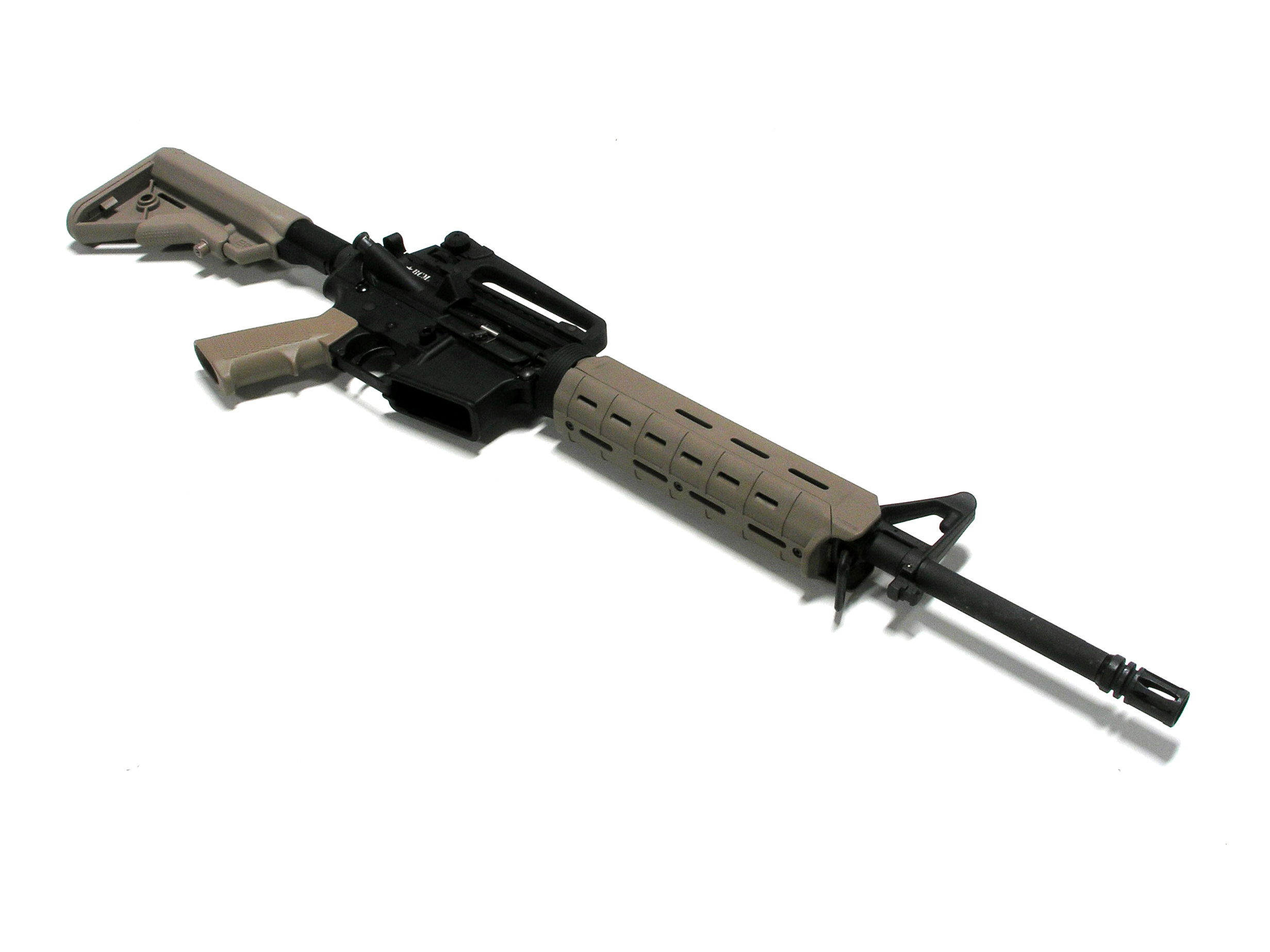 Magpul MOE M-LOK handguard on a privately assembled AR-15 semi-automatic rifle. Rifle specifications: BCM upper Stag Arms Stag-15 lower receiver Bravo Company Standard 16" mid-length upper receiver B5 Systems Bravo SOPMOD stock Bravo Company bolt carrier group DPMS carry handle Magpul MOE handguard Weight: 7.11 lb (3.23 kg) (without magazine)